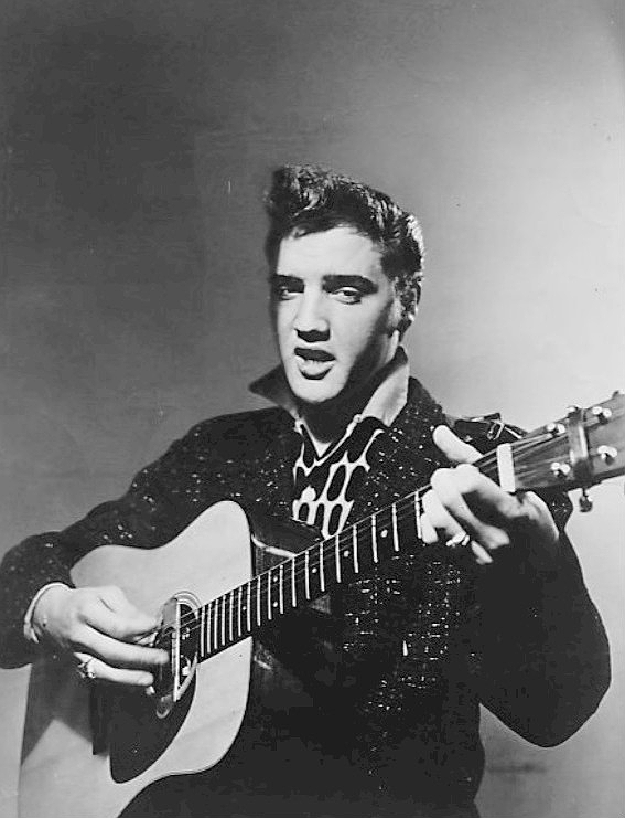 This is the photo sent out by the CBS television program Stage Show to promote the first national television appearance of Elvis Presley on January 28, 1956. The show was hosted by the Dorsey Brothers, who had patched up their long-standing family feud. The program was hosted one week by Jimmy Dorsey and the following one, by Tommy. The death of Tommy Dorsey, in November 1956, put an end to the variety program.